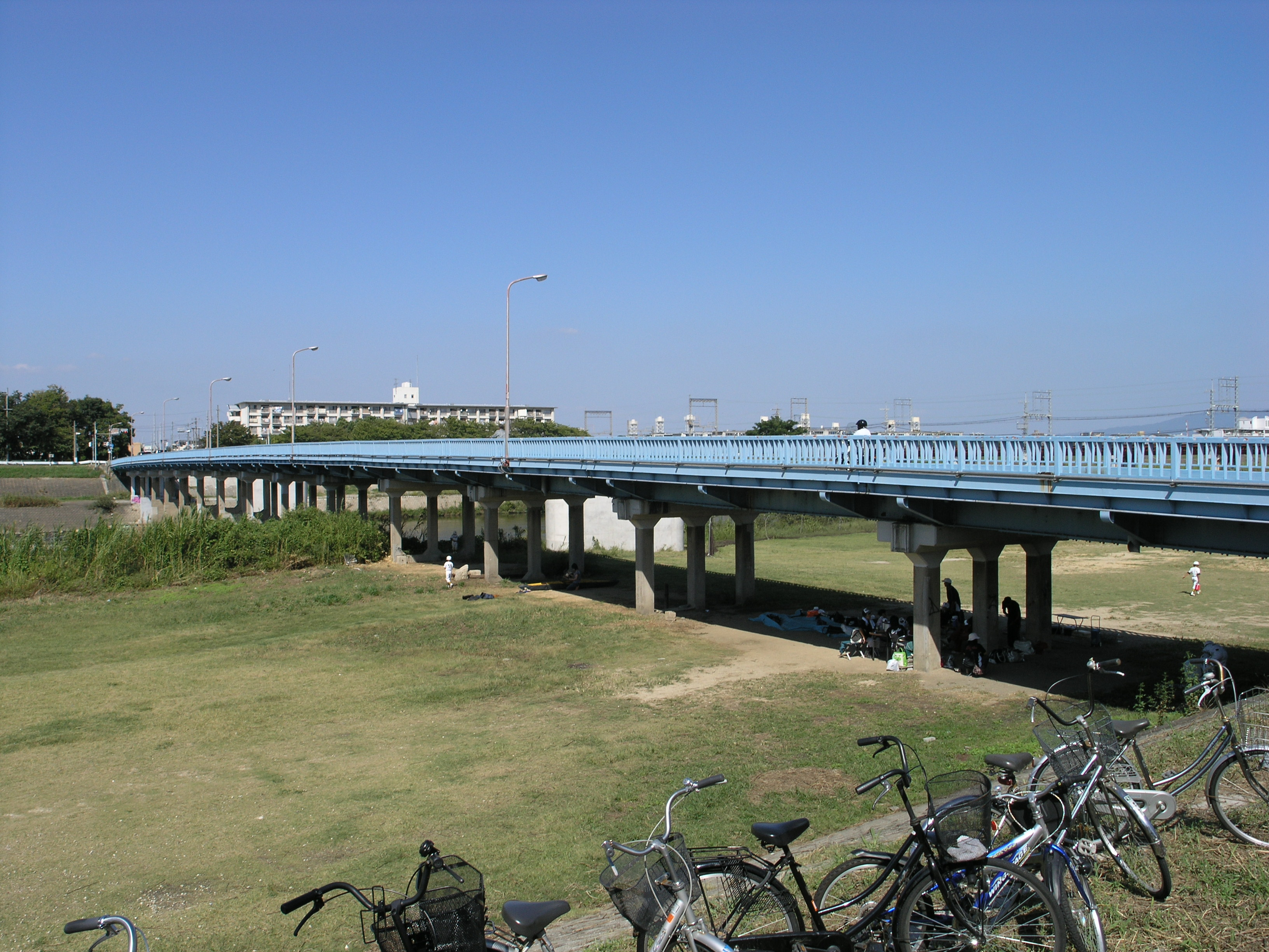 Shimokouya-bashi (Bridge), Higashisumiyoshi, Osaka